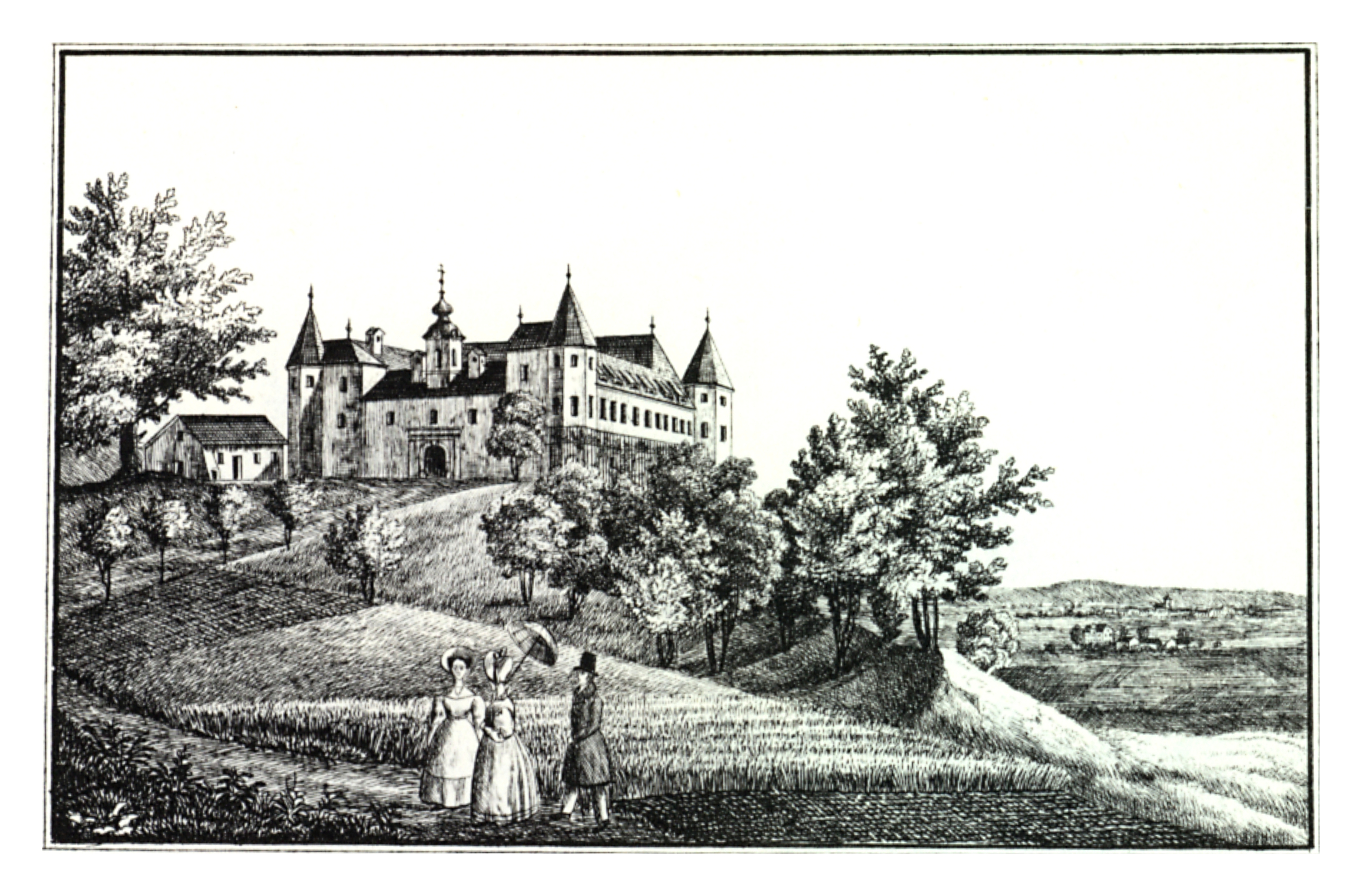 J. F. Kaiser - lithographirte Ansichten der Steyermärkischen Städte, Märkte und Schlösser Graz, 1825 Scanprojekt Community Projektbudget 2012 This scan or this PDF-file was created within the GLAM-project Bookscanning, supported by Wikimedia Germany and Wikimedia Austria as a part of the community-project to capture books, documents and pictures which are not eligible to copyright or for which the copyright has expired. This document describes or depicts an object which is located in Austria today. Send requests for uncompressed scans to Hubertl. This work is in the public domain in its country of origin and other countries and areas where the copyright term is the author's life plus 100 years or less. You must also include a United States public domain tag to indicate why this work is in the public domain in the United States. This file has been identified as being free of known restrictions under copyright law, including all related and neighboring rights.